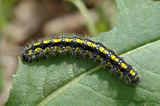 Picture taken in Commanster, Belgian High Ardennes. Species: Callimorpha dominula